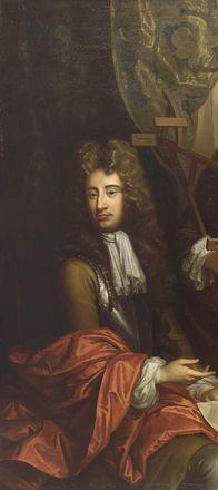 Detail of a triple portrait by Thomas Murray. It shows Thomas Phillips, the fleet’s chief military engineer. Highly distinguished, he was involved with John Benbow at the bombardment of St Malo. He wears a leather coat and breastplate with a red silk drape over his right arm. His portrait was probably painted in 1692-93 before the summer campaign of 1693 from which he did not return.